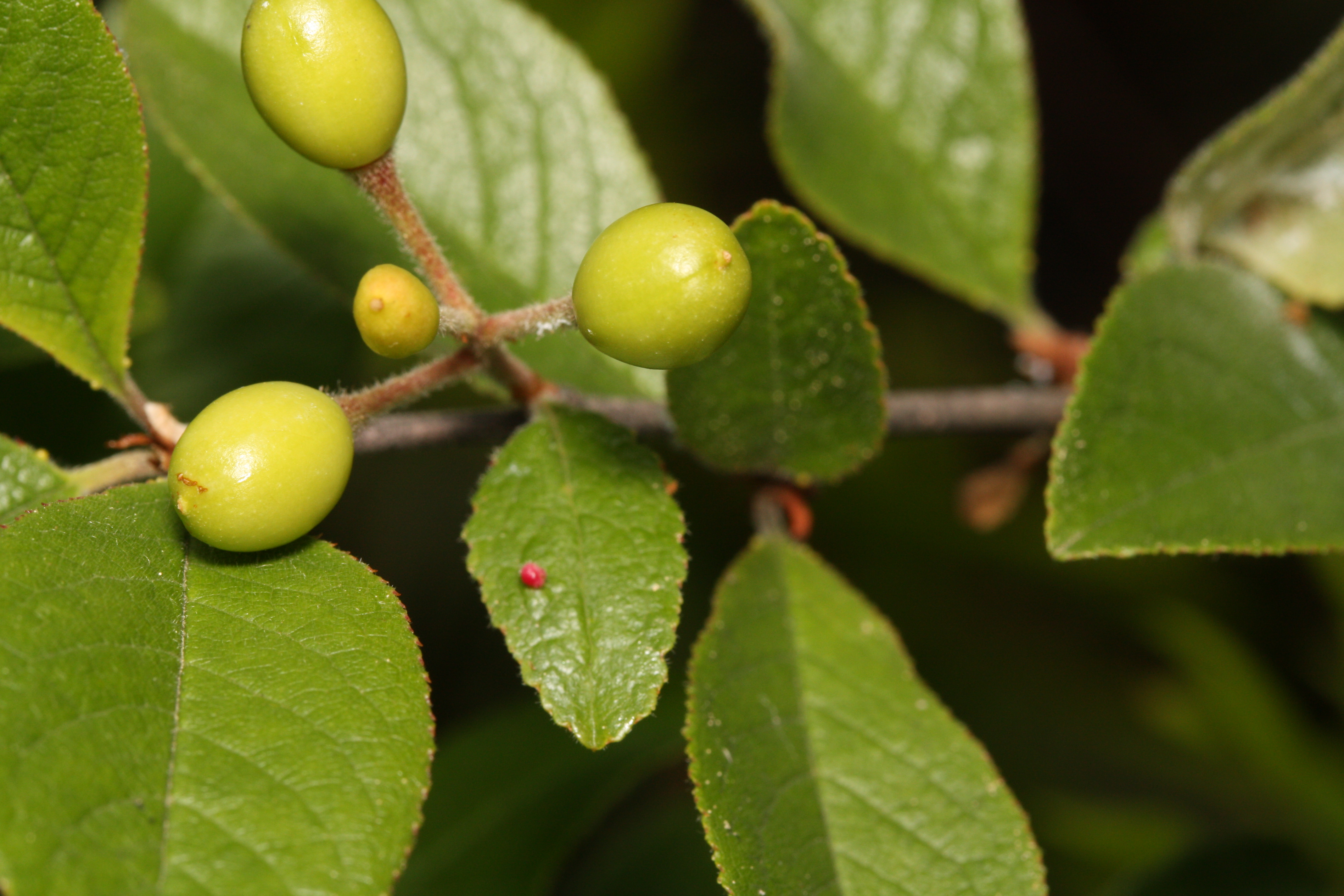 Bitter Cherry